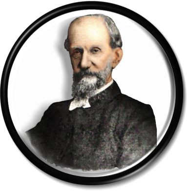 Andrew Murray (minister) (1828–1917), South African religious minister, missionary, and author